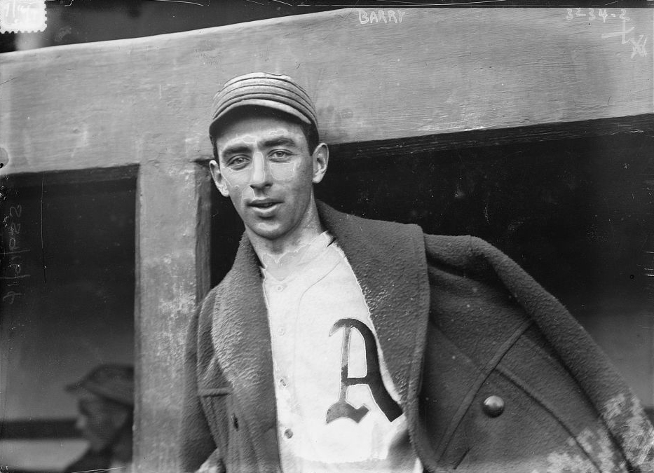 Major League Baseball player Jack Barry of the Philadelphia Athletics.